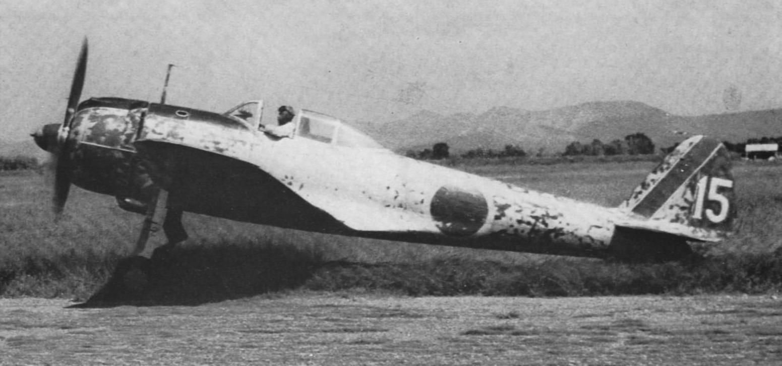 A Japanese Nakajima Ki-43-II Hayabusa fighter.